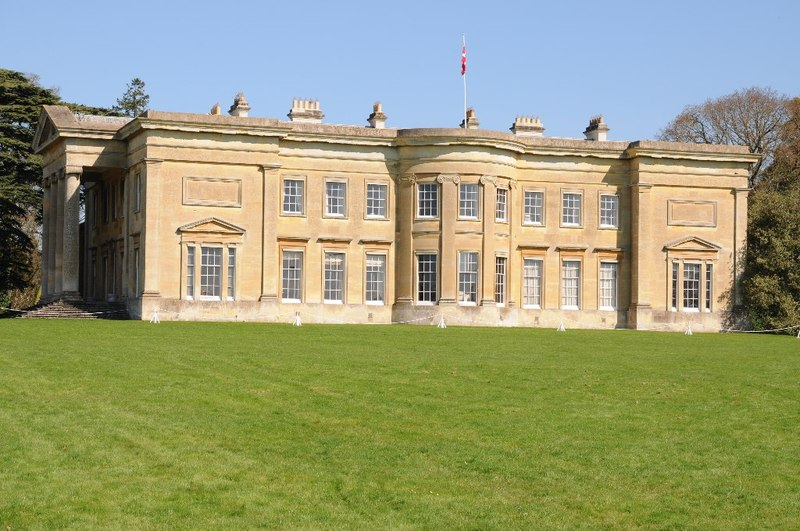 Spetchley Hall is the Worcestershire home of the Berkeley family, who also own Berkeley Castle in Gloucestershire. The present Georgian house was constructed in Bath Stone in the Palladian Style in 1811. The architect was John Tasker. During World War II, Spetchley Park had been ear-marked as the residence for Winston Churchill, part of Operation Black Move, had the Nazi invaded Britain. This house along with a number of buildings in this region had been identified for government and prominent people. The original residence was a moated Tudor house, situated to the south of the present house. This earlier house was home first to the Lyttleton family and then to the Sheldon family, before wealthy wool merchant and banker, Rowland Berkeley, bought the estate in 1605. During the English Civil War despite Sir Robert Berkeley's Royalist sympathies the earlier house was burned to the ground by a disgruntled band of Scottish Presbyterians. Though also Royalists their aim was to prevent Cromwell from using the house as his headquarters during the Battle of Worcester.